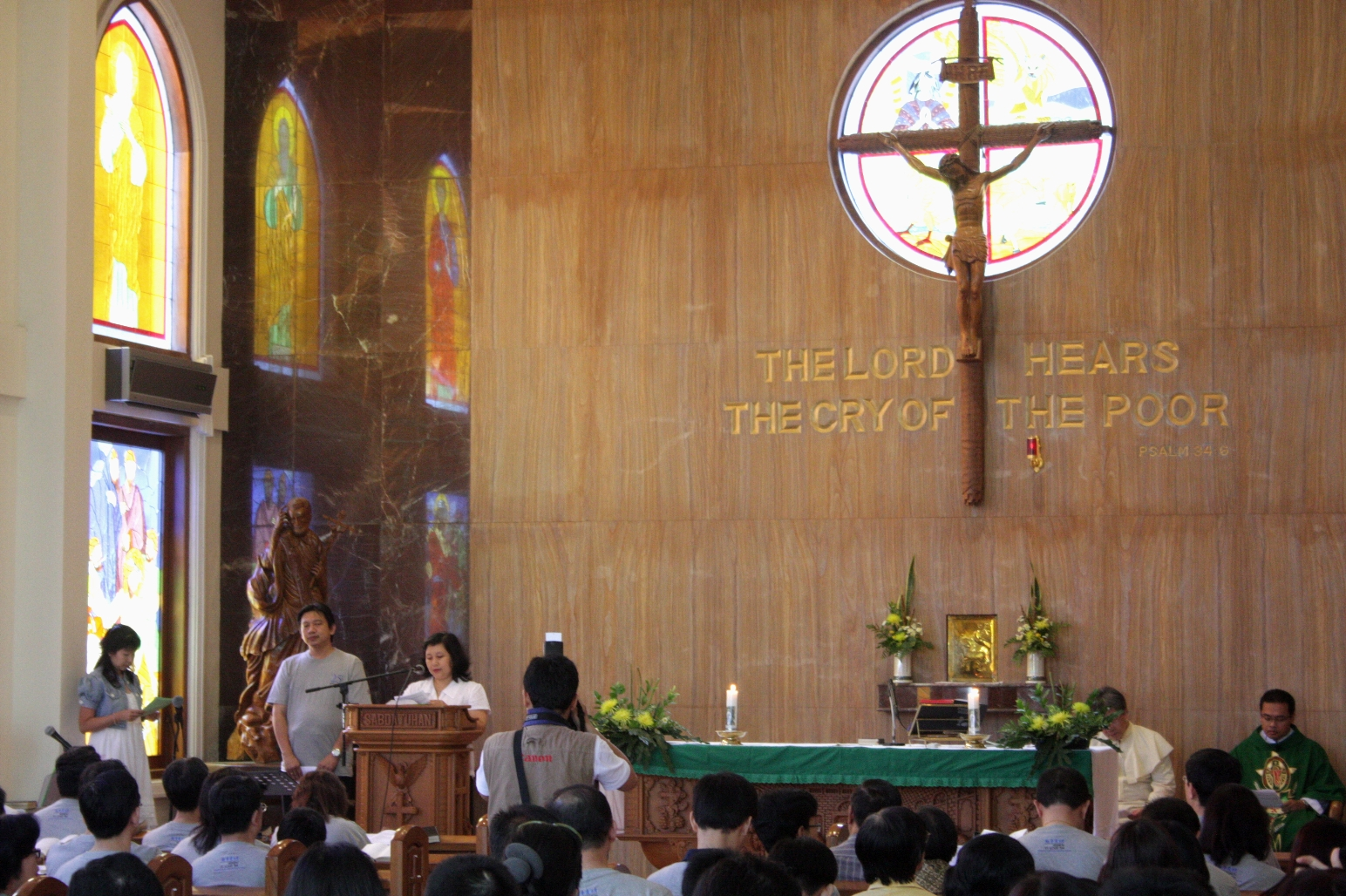 St Louis High School Surabaya chapel